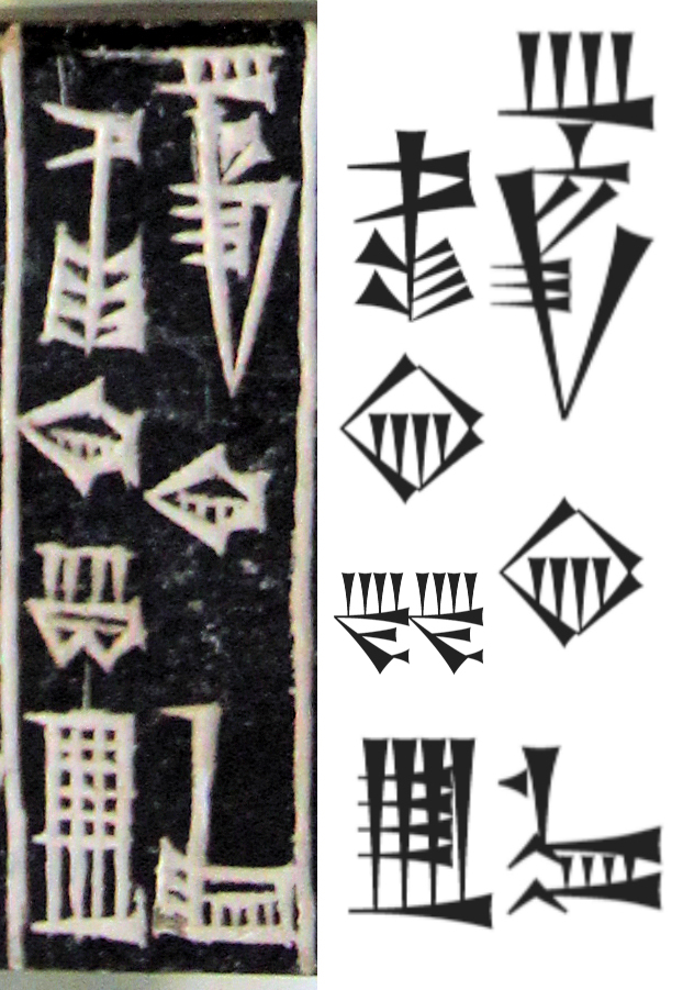 Lugal Kiengi Kiurike, King of Suler and Akkad, on a seal of Shulgi